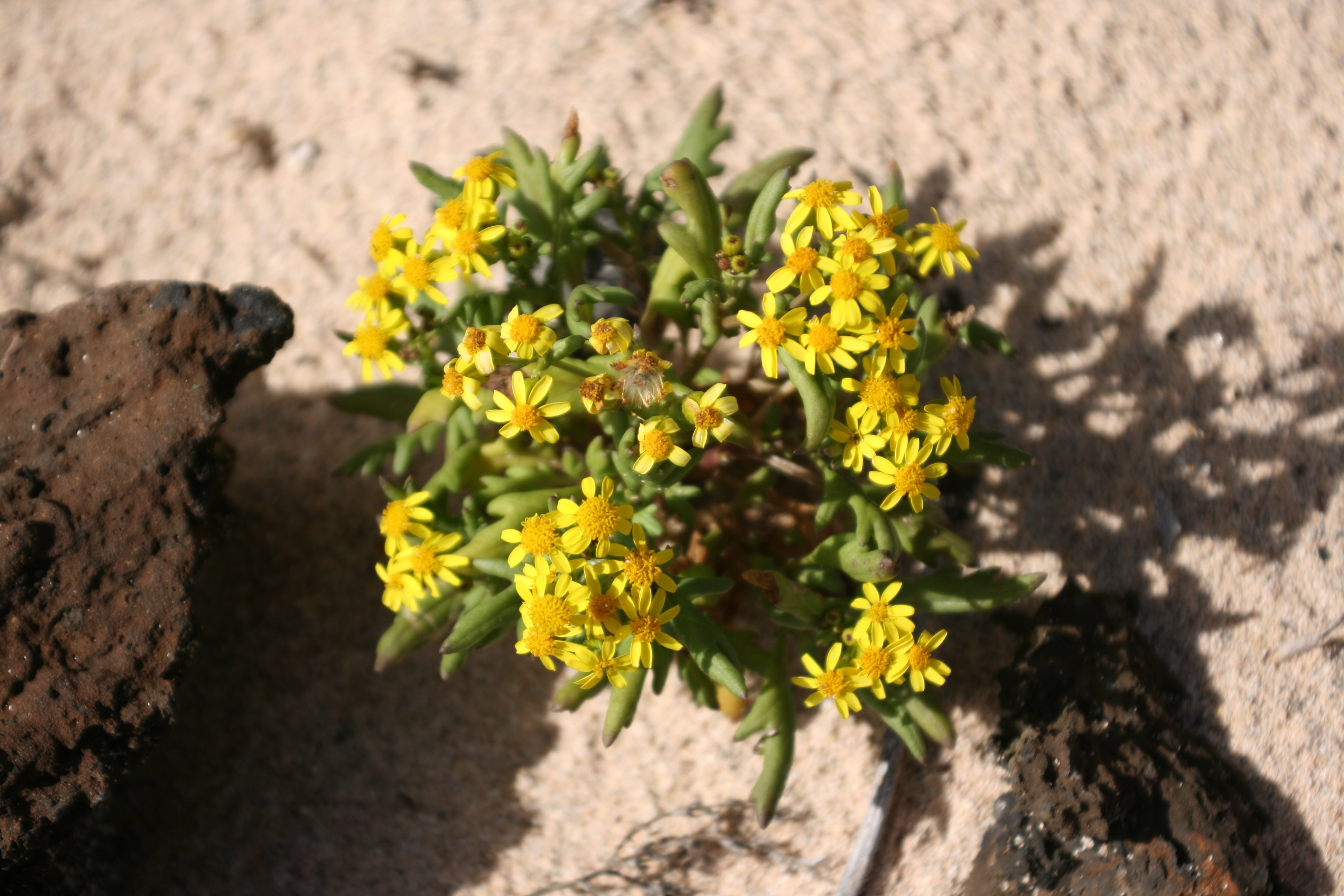 Senecio leucanthemifolius growing at La Caleta, Lugar Diseminado Maguez (LZ-1) in Haría